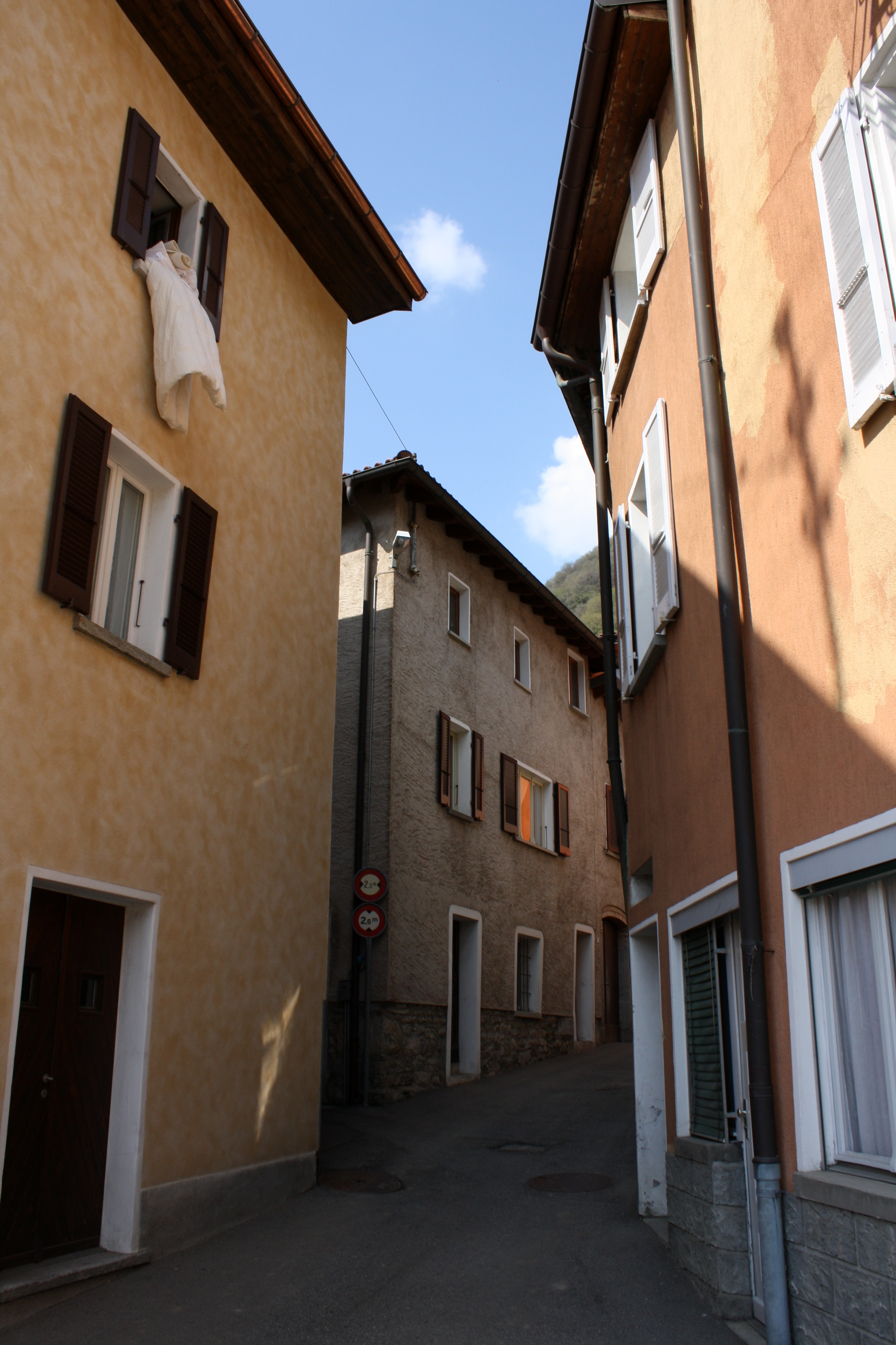 Houses in Arogno, Ticino, Switzerland